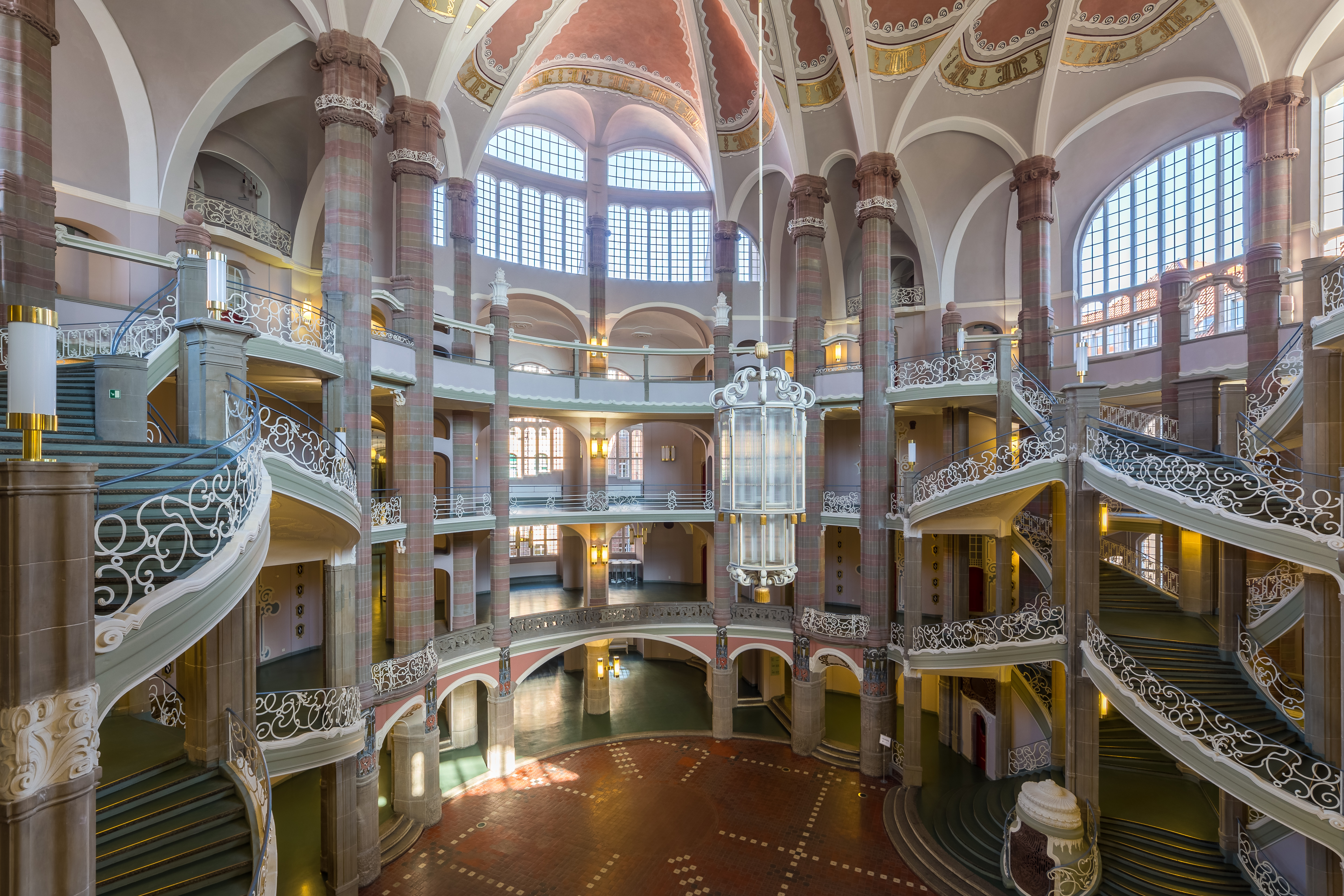 Entrance hall of the regional court of Berlin located in Littenstrasse 12-17 in Berlin-Mitte.